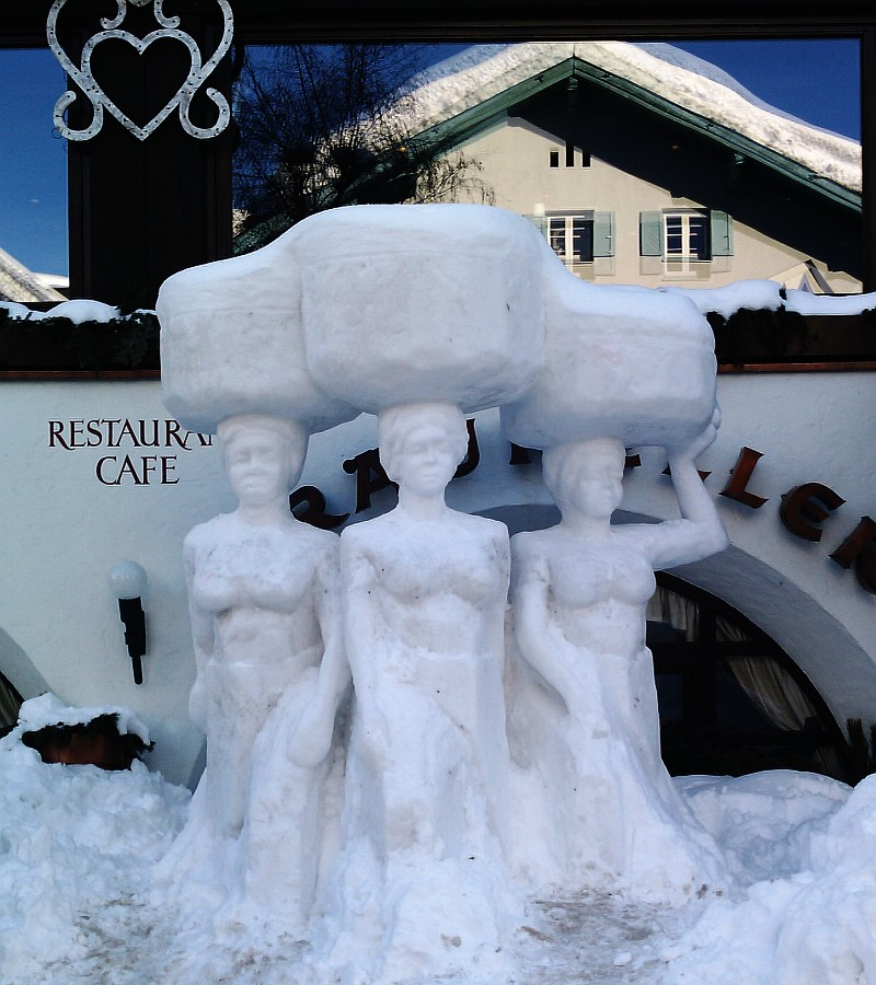 Sculpture of the annual snow festival in Seefeld in Tirol